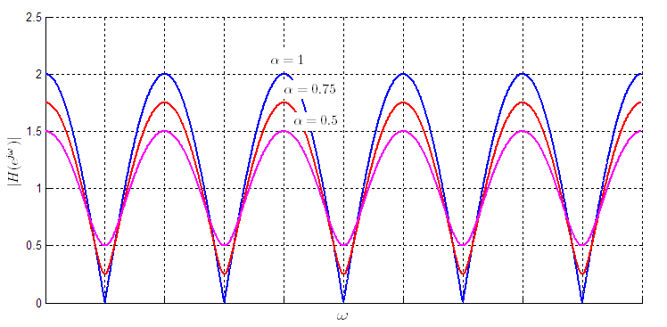 Magnitude response of feedforward comb filter for positive values of α {\displaystyle \alpha }